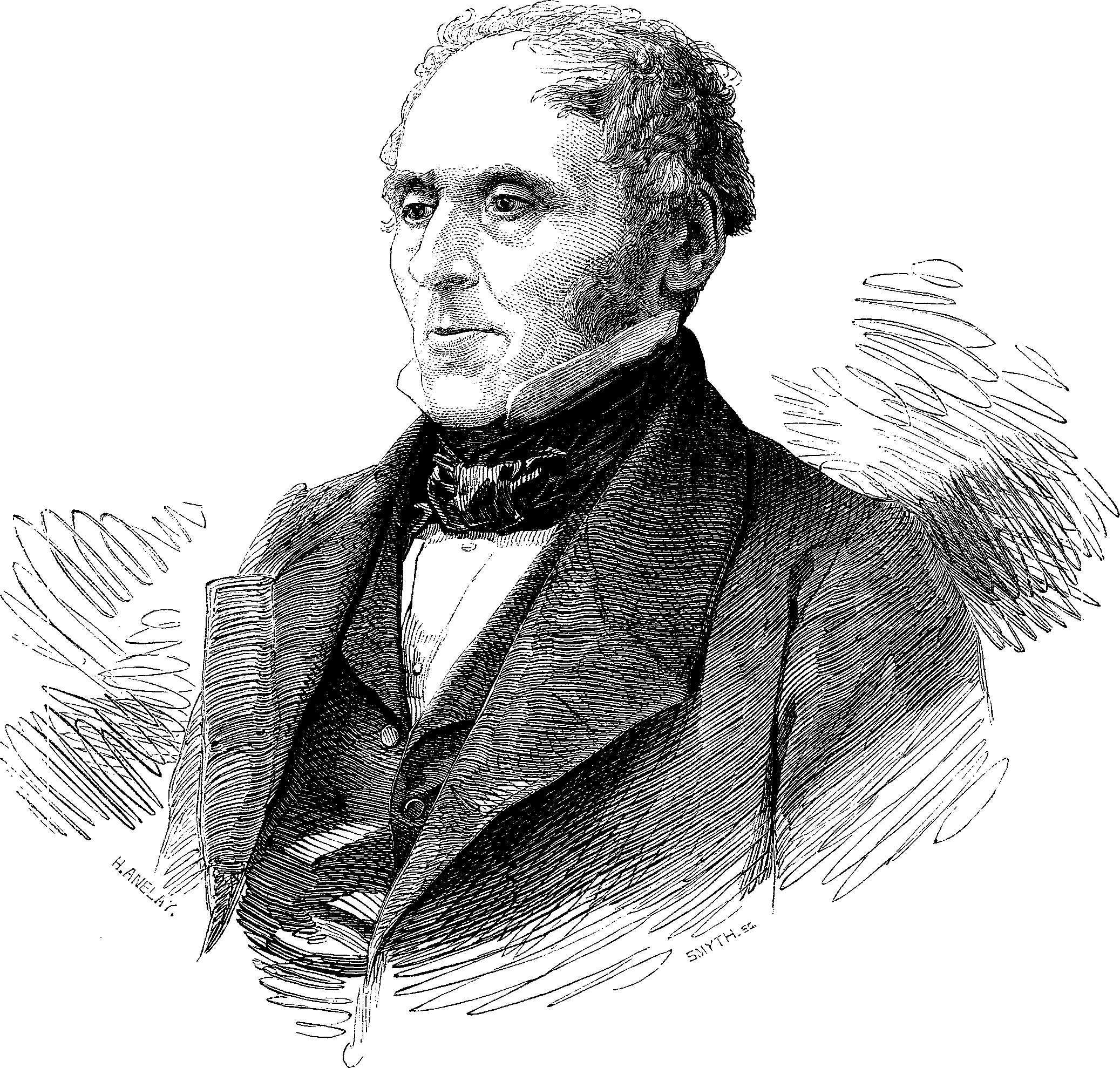 Wood-engraving of Robert Lee, British physician specialising in gynaecology and midwifery; sketch based on a Daguerreotype